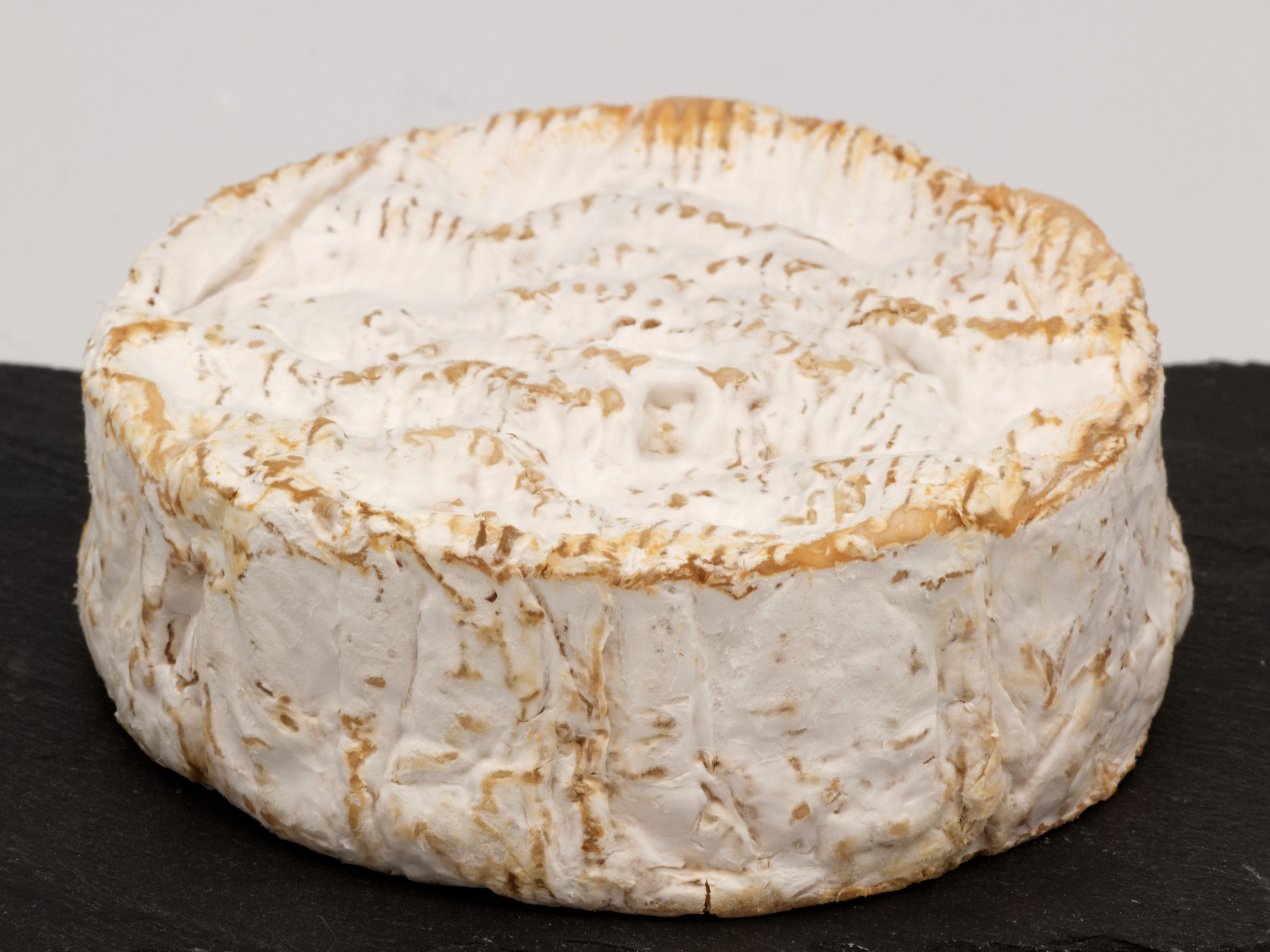 Camembert de Normandie (Protected Designation of Origin)